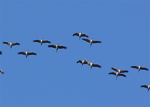 Common Crane